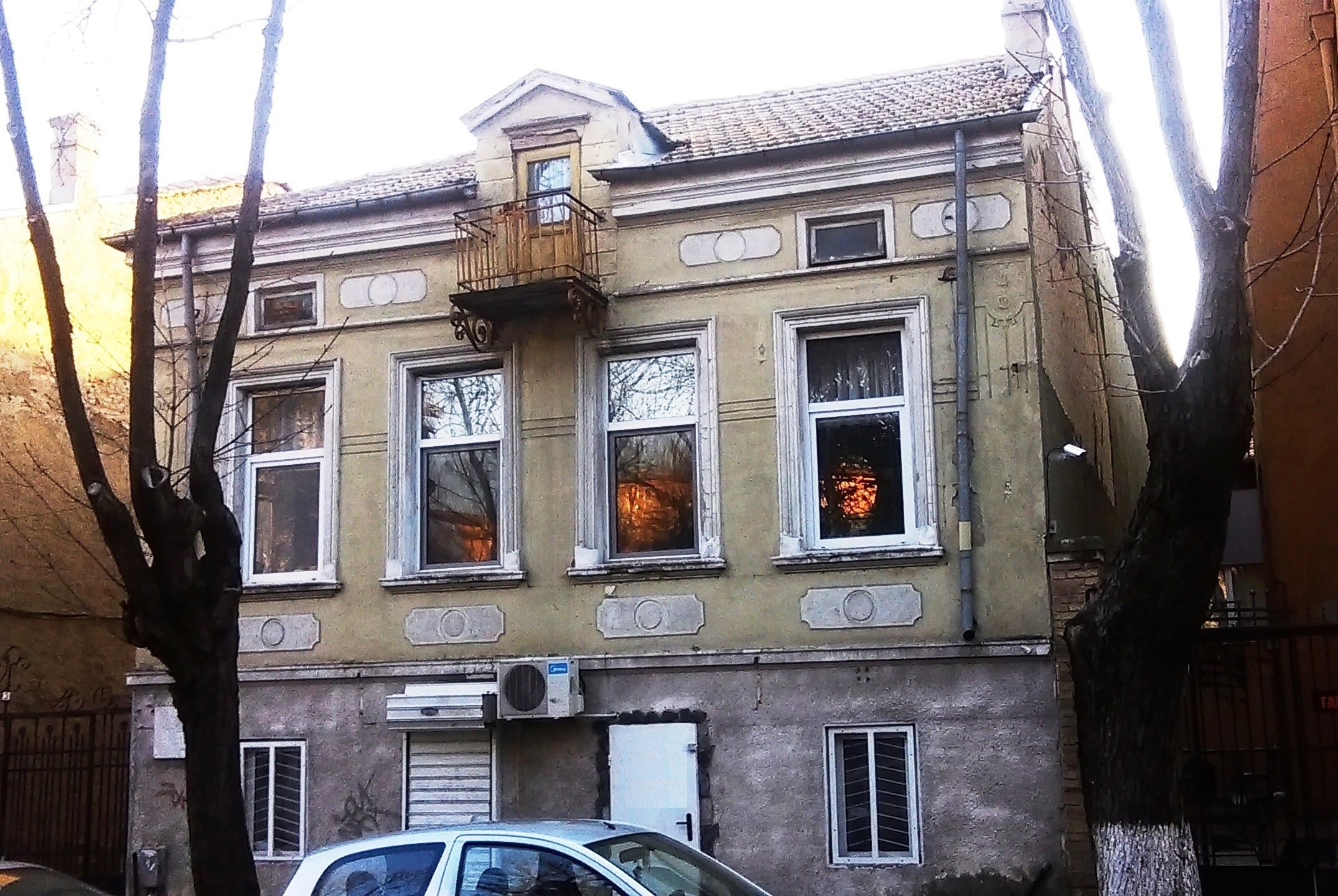 Residence of the Bulgarian composer Svetoslav Obretenov in Varna